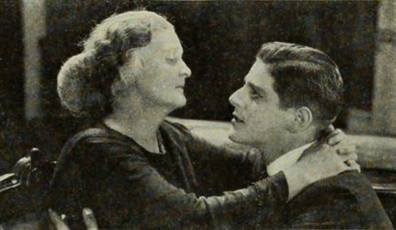 Still from the American film Silver Wings (1922) with Mary Carr, page 63 of the 1922 Photoplay.